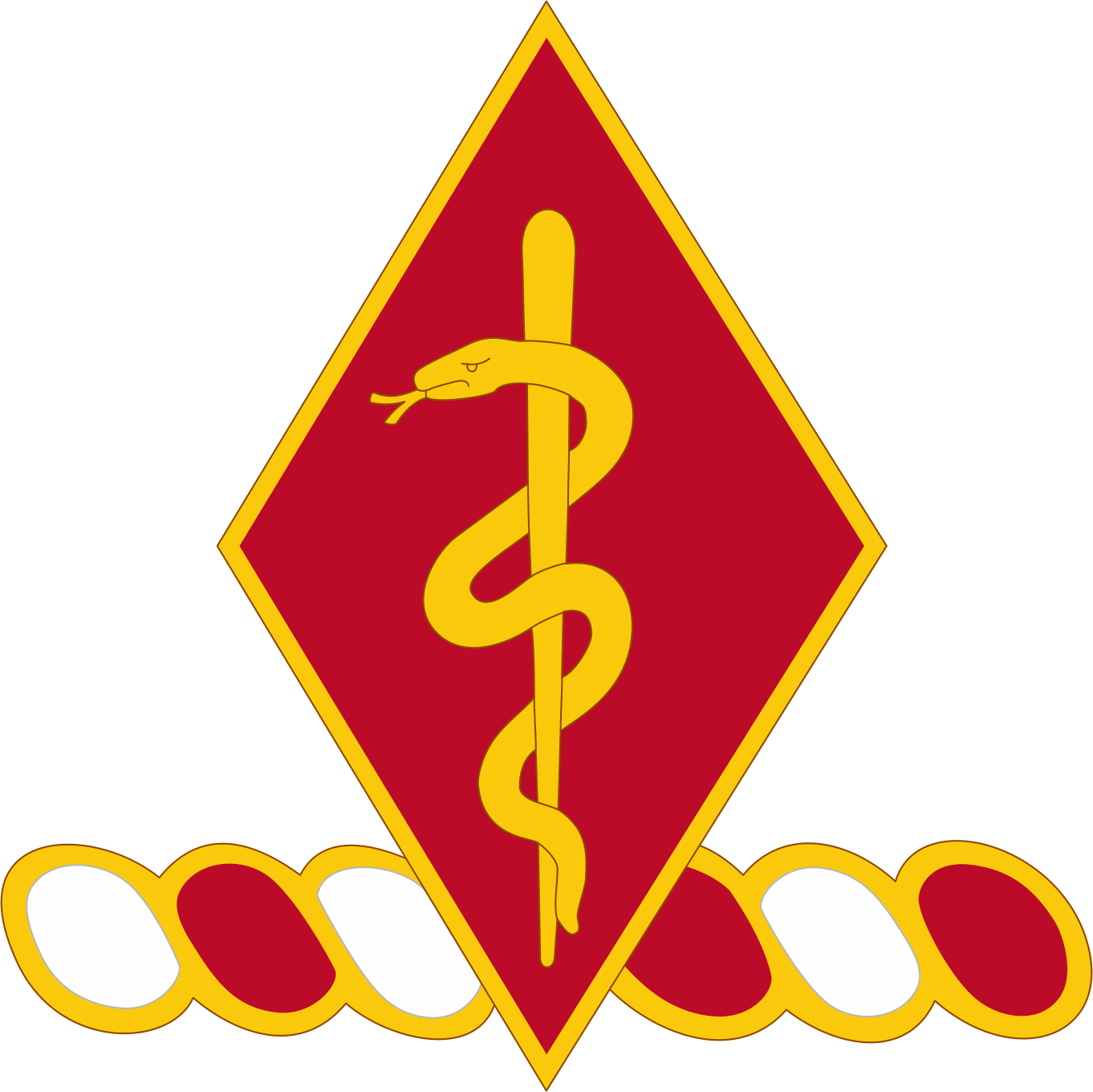 204 Support Battalion distinctive unit insignia